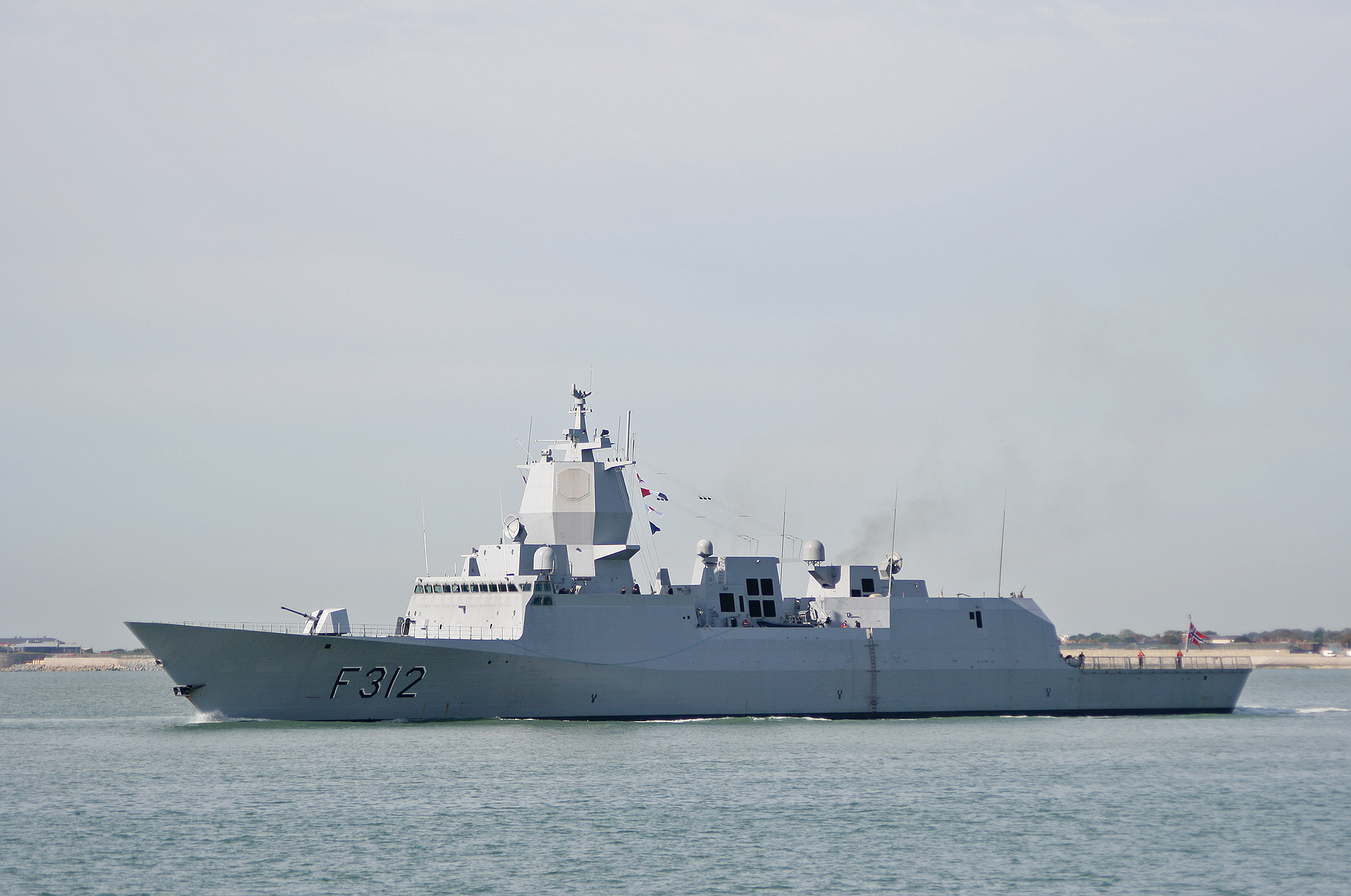 Norwegian warship HNoMS Otto Sverdrup, a Fridtjof Nansen class frigate, outward bound from Portsmouth Naval Base, UK, 21st September 2009. Image uploaded by me George Hutchinson using a photograph supplied by Brian Burnell. Image uploaded by me User:George.Hutchinson from a photograph taken by and supplied by Brian Burnell. Wikipedia editors are reminded that the copyright remains with the photographer, and that the terms of the Creative Commons licence; that allow editors to reuse this image apply to Wikipedia editors also, as they do to other re-users of this image. Breaches of the licence terms are not only unlawful, but are also antisocial, in that breaches discourage photographers from making their images freely available to everyone without payment. Wikipedia re-users are also reminded of the license terms that derivatives of this image should not imply that the adaptation is endorsed or approved by the author or copyright holder. Neither should derivatives be presented as the creation of the author or copyright holder, while clearly stating that the adaptation is a derivative of the original. Attribution online should be in this format Brian Burnell. On the printed page, a simpler form is acceptable - example: "Image: Brian Burnell". Non-Wikipedia users are requested to advise Brian Burnell of its use other than on Wikipedia.